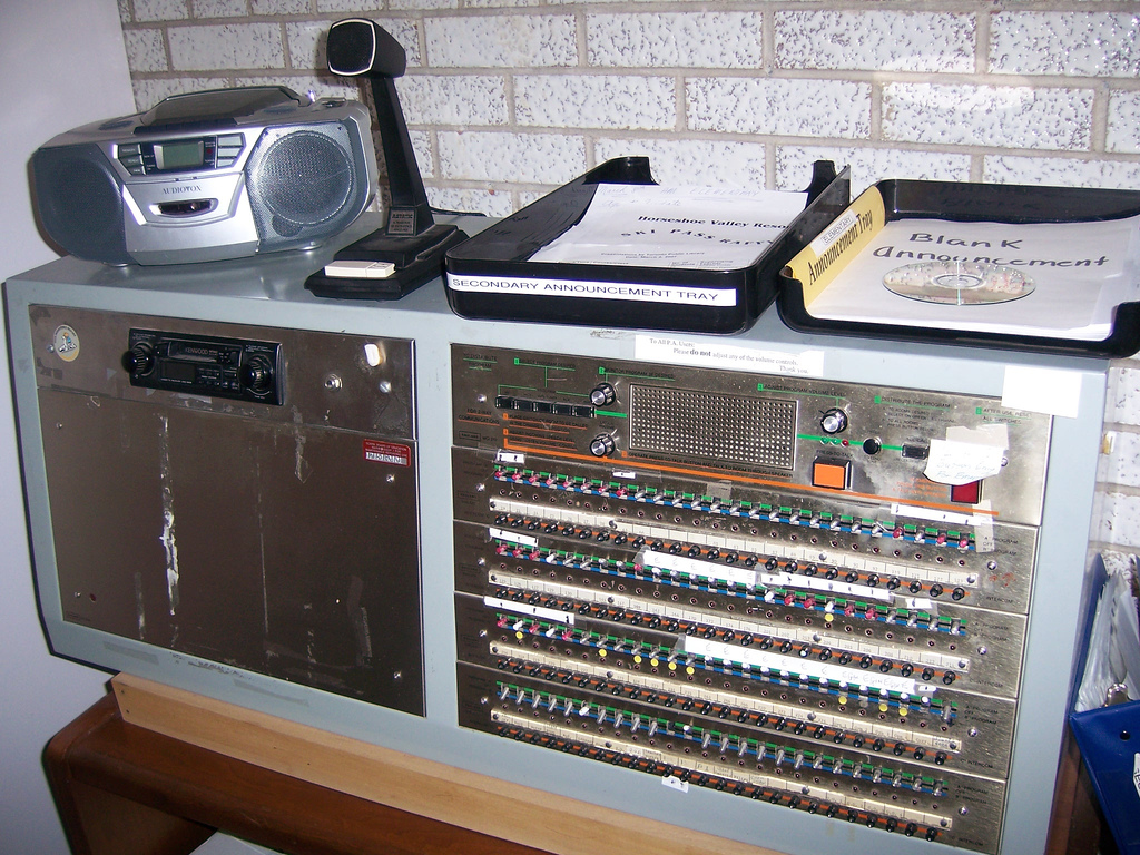 Author: bennymoto